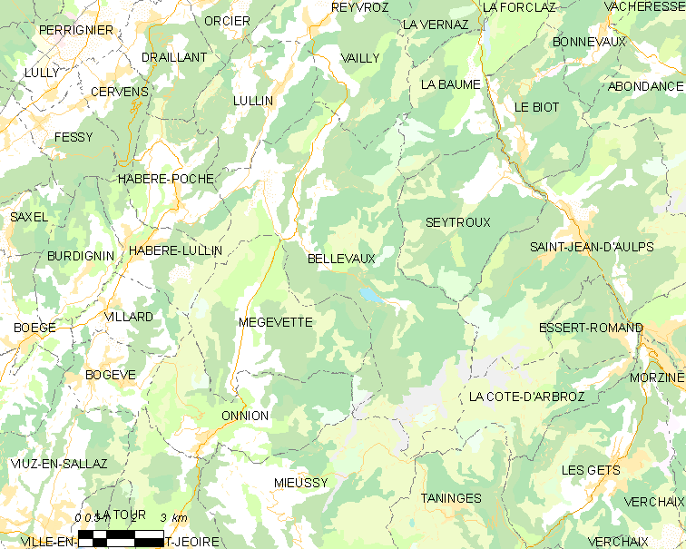 Map of French municipality Bellevaux